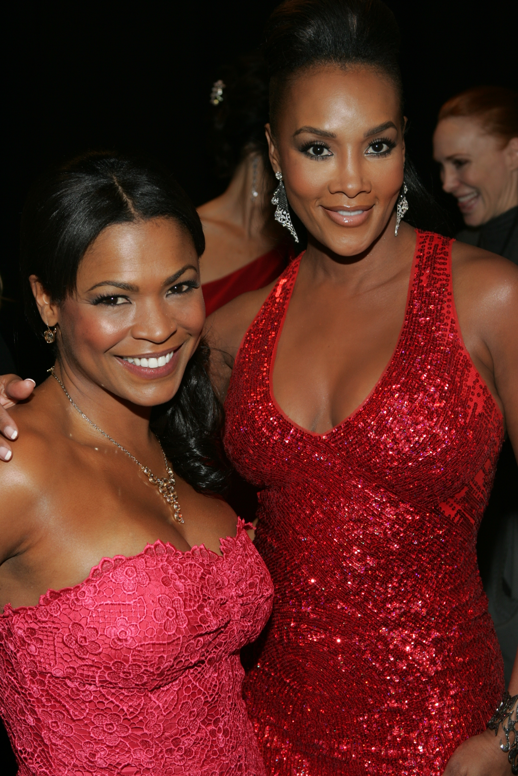 Nia Long and Vivica A. Fox backstage at the 2009 Heart Truth fashion show.